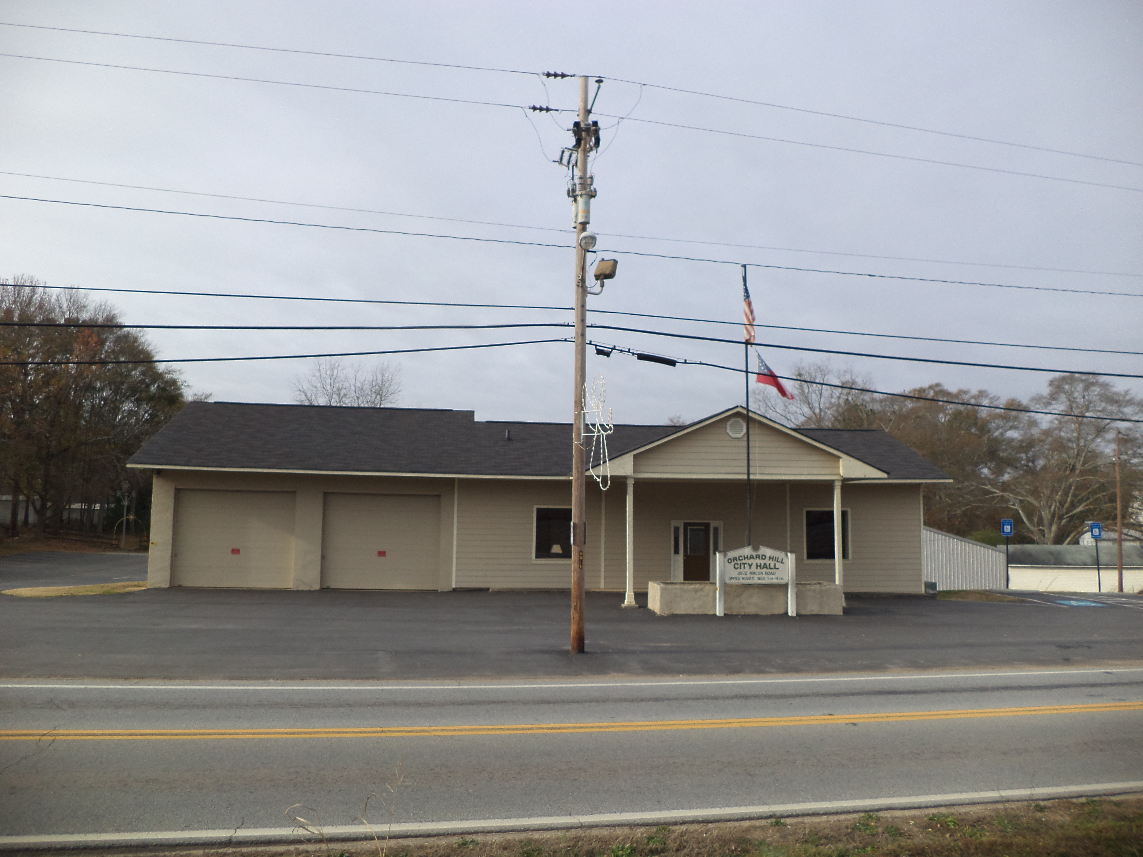 Orchard Hill City Hall, Orchard Hill, Spalding County, Georgia